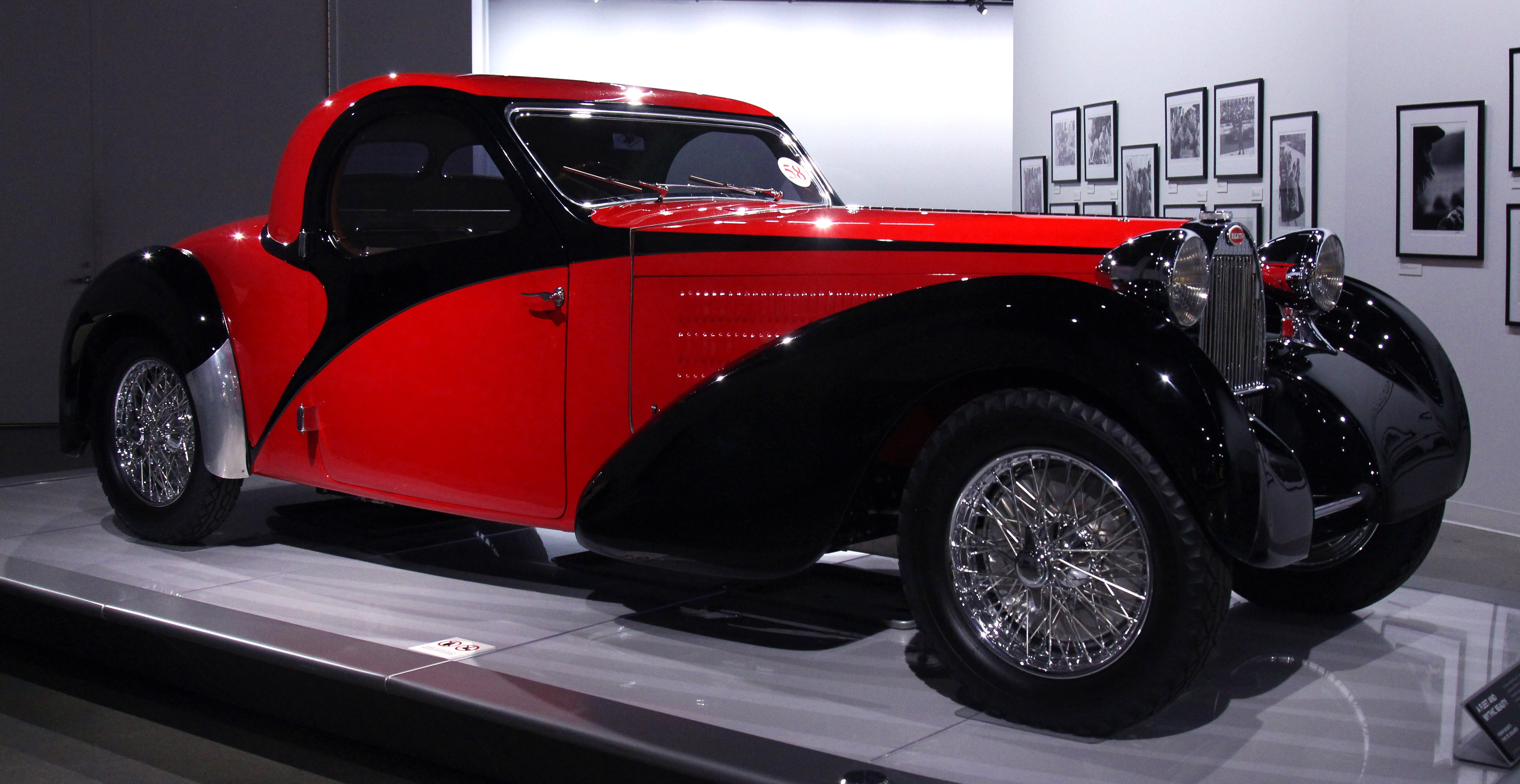 To offer the desired look of a convertible but maintain aerodynamic efficiency, a “faux cabriolet” style was designed by Jean Bugatti. The fully-enclosed cab of the Atalante offered the practical advantages of a streamlined coupe yet resembled a rakish cabriolet. World War II halted the manufacture of luxury products, and when Bugatti resumed production, they used prewar car designs and parts left in the factory. This Atalante is such an example, a prewar design that was built in 1949. Petersen Automotive Museum Los Angeles, California